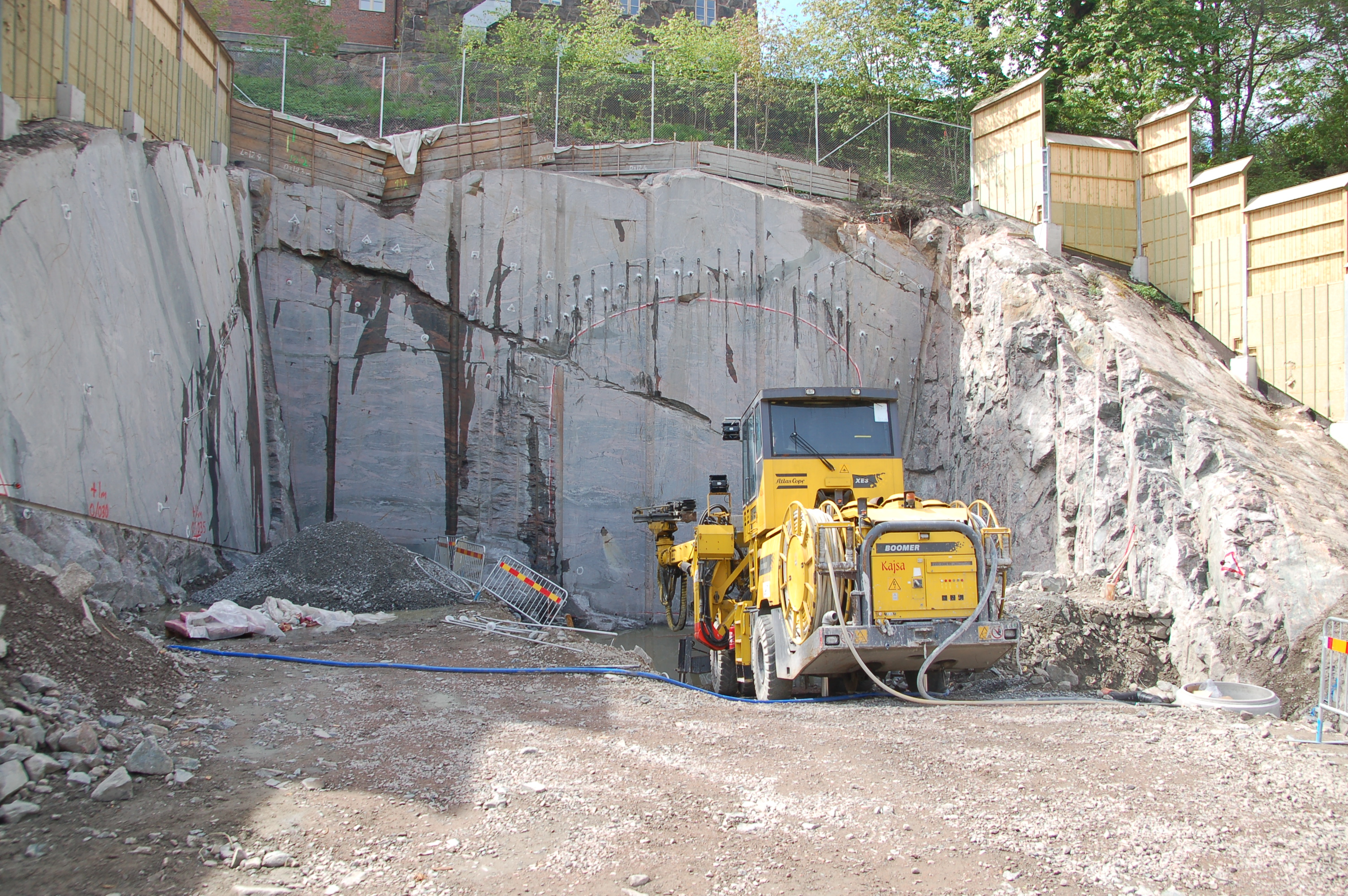 Train tunnel Västlänken in Gothenburg, Sweden, under construction. Preparing a service tunnel at Södra vägen in May 2019.